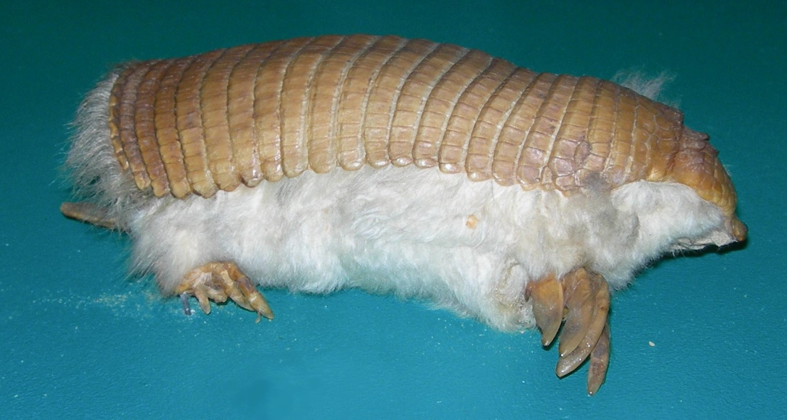 Mounted Pink Fairy Armadillo (Chlamyphorus truncatus), at the Muséum d'Histoire naturelle de Genève.